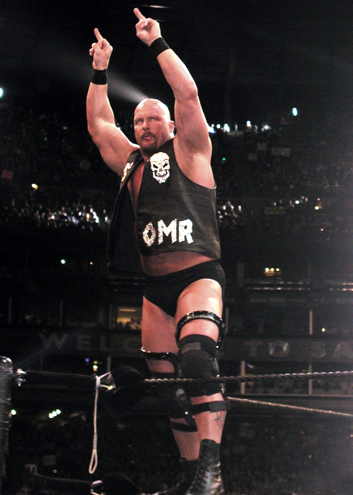 Stone Cold Steve Austin at WrestleMania XIX. Safeco Field, Seattle, WA, on March 30, 2003.